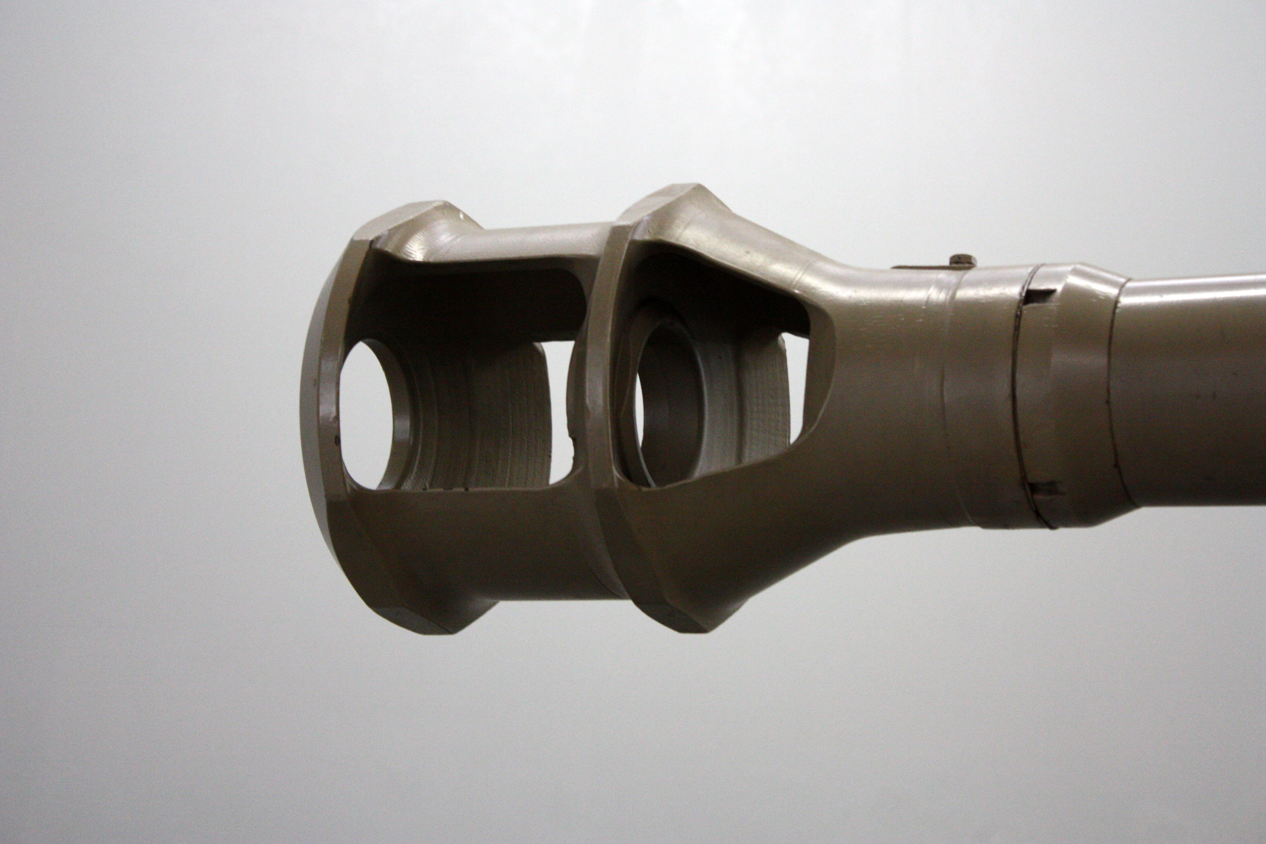 German Tank Museum